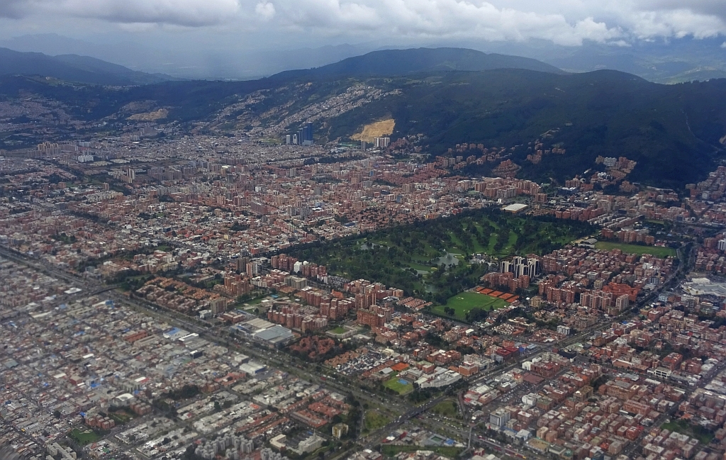 Aerial view of northern Bogotá; Country Club, Calle 127, Autopista Norte, Calle 134, Eastern Hills